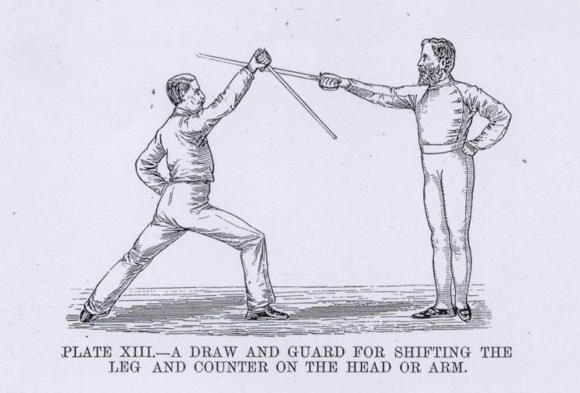 J M Waite, Lessons in sabre, singlestick, sabre & bayonet, and sword feats, London, 1880